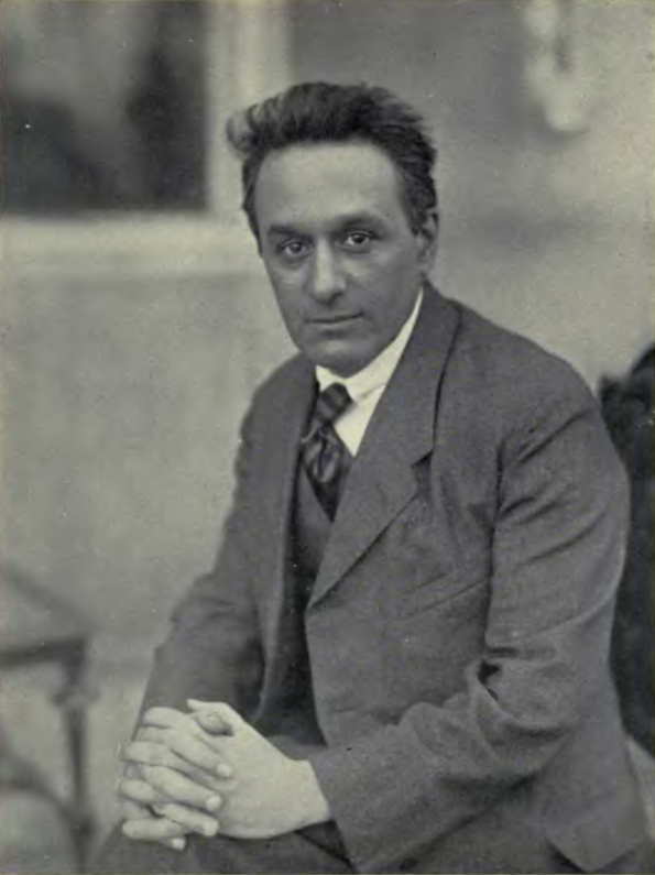 Sigismund Kunfi,alias Kungstätter, Lenin's emissary, people's commissary for education